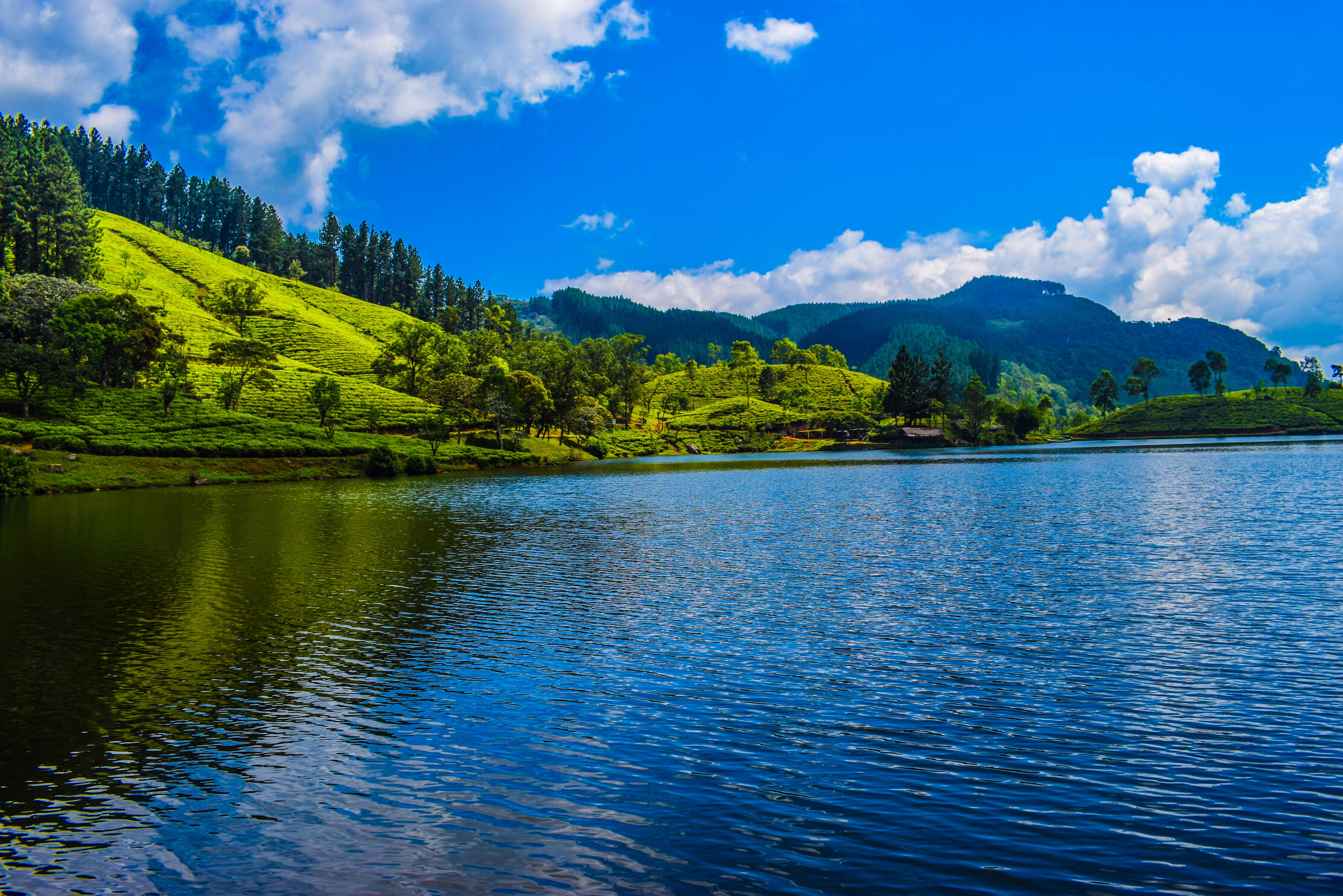 Sembuwatte Lake located in Matale. It is one of the famous touristic spot in Matale.